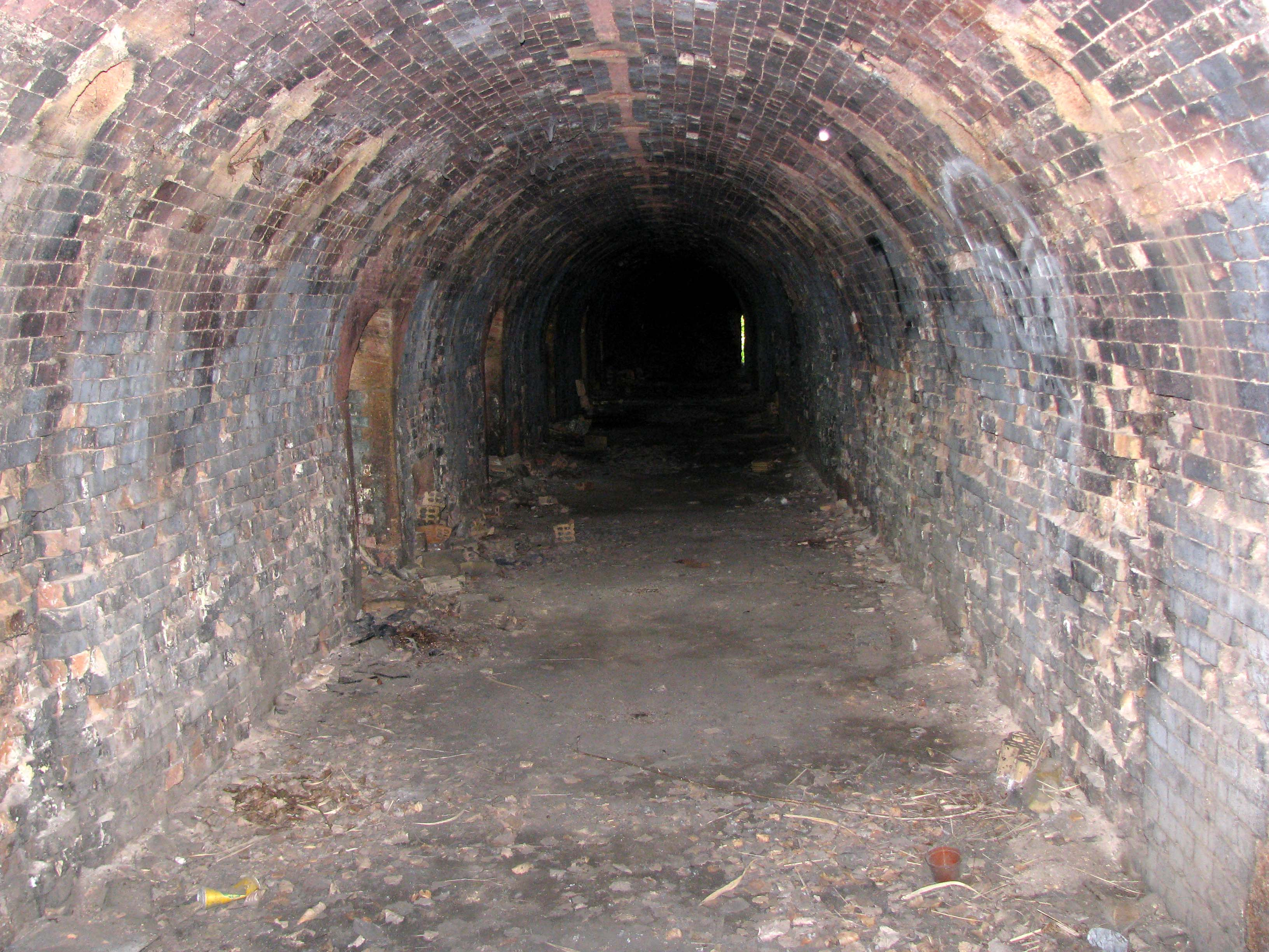 Brick kiln Gänserndorf Combustion chamber